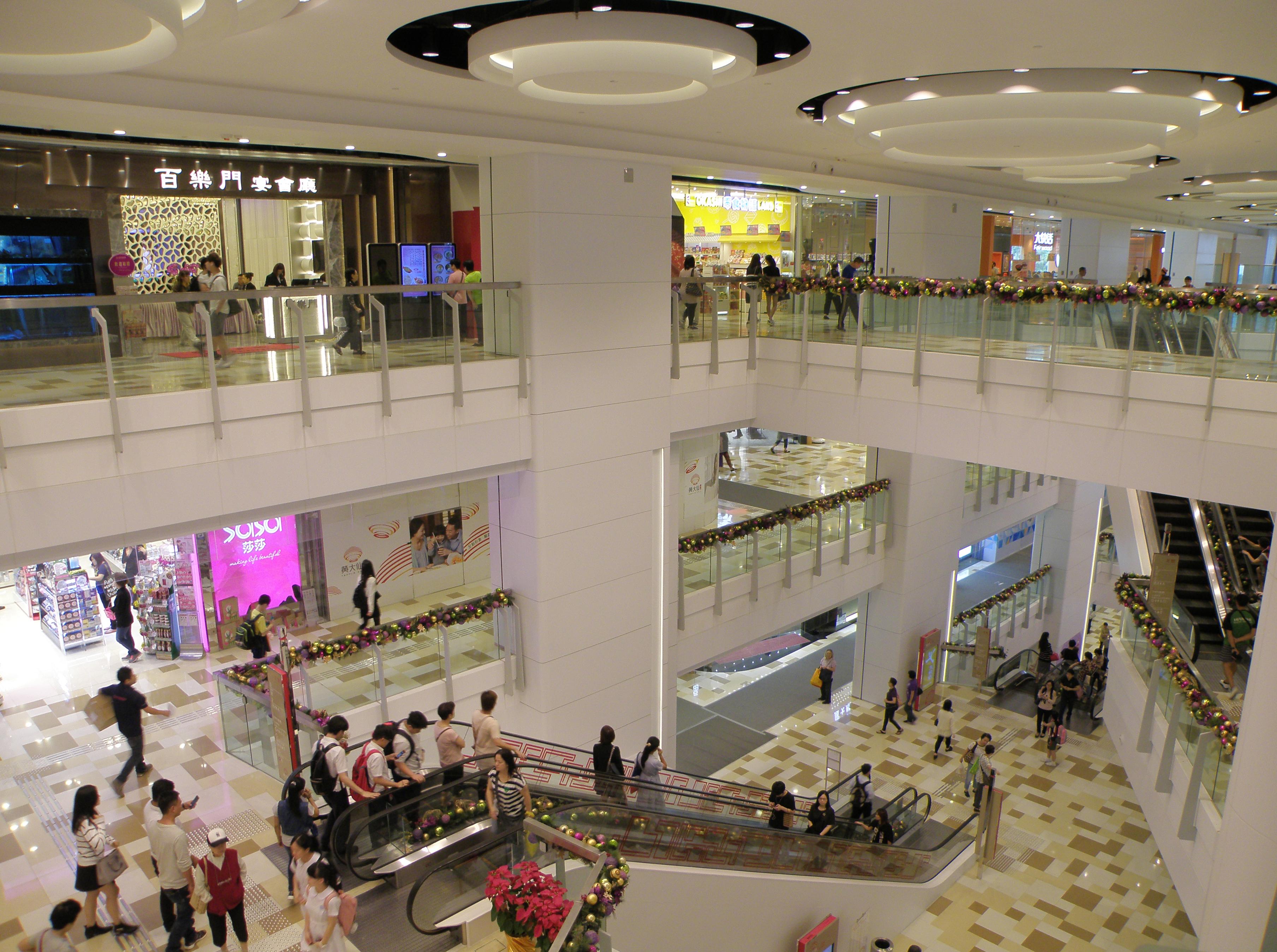 Temple Mall in Wong Tai Sin, Hong Kong.